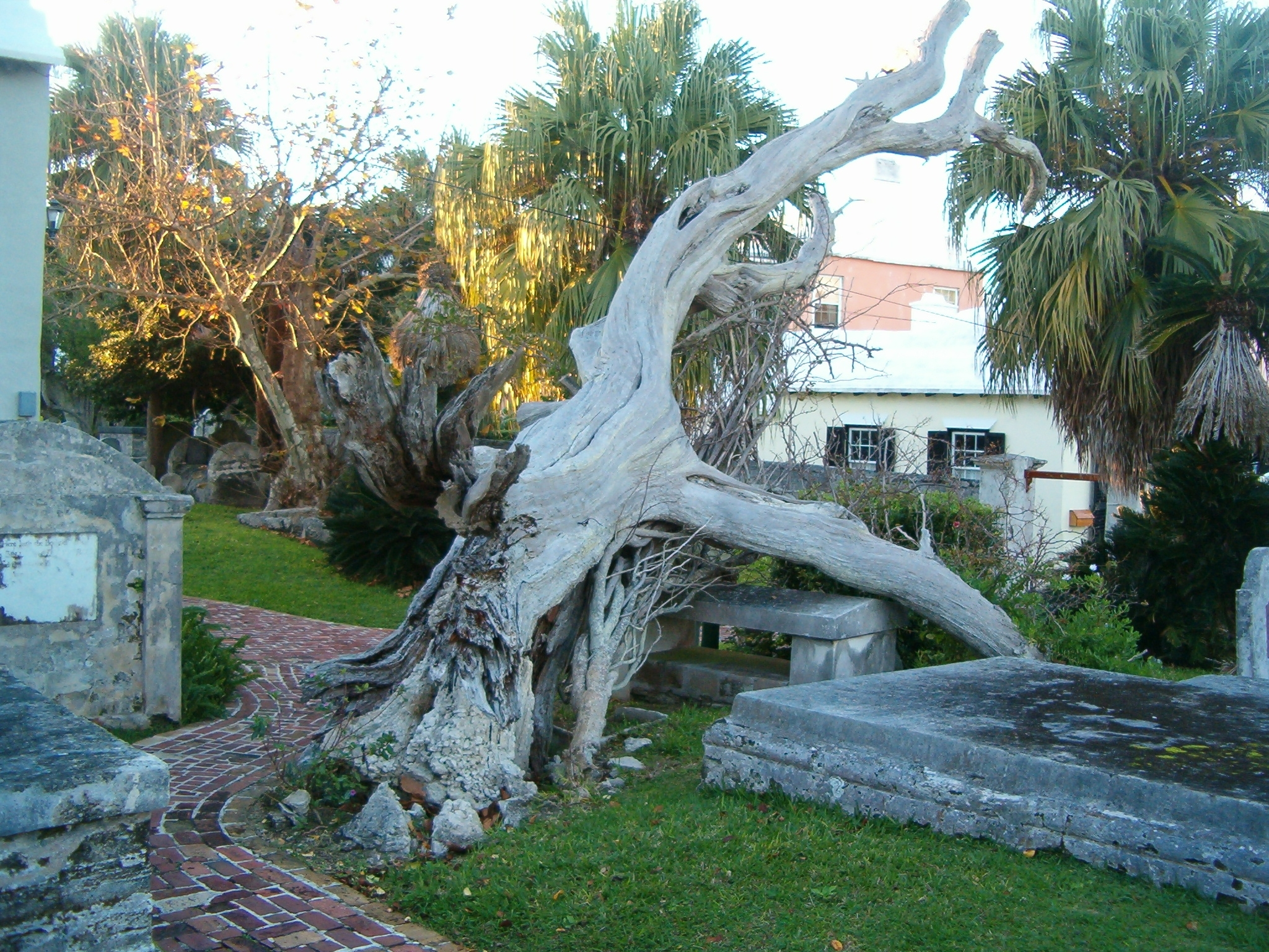 A Bermuda Cedar| belfry| tree, at Saint Peter's Church| in St. George's|, Bermuda. The tree was used to hang the church bell before a steeple| and belfry were added to St. Peter's Church (originally built in 1612). The tree, which appears to be dead, was felled in a hurricane in 2003, but has not been removed due to its historical significance. St. Peter's is the oldest surviving Anglican (before 1978, Church of England) church outside the British Isles. Aodhdubh| 19:45, 17 October 2007 (UTC) Summary A Bermuda Cedar belfry tree, at Saint Peter's Church in St. George's, Bermuda. The tree was used to hang the church bell before a steeple and belfry were added to St. Peter's Church (originally built in 1612). The tree, which appears to be dead, was felled in a hurricane in 2003, but has not been removed due to its historical significance. St. Peter's is the oldest surviving Anglican (before 1978, Church of England) church outside the British Isles. Aodhdubh 19:45, 17 October 2007 (UTC)